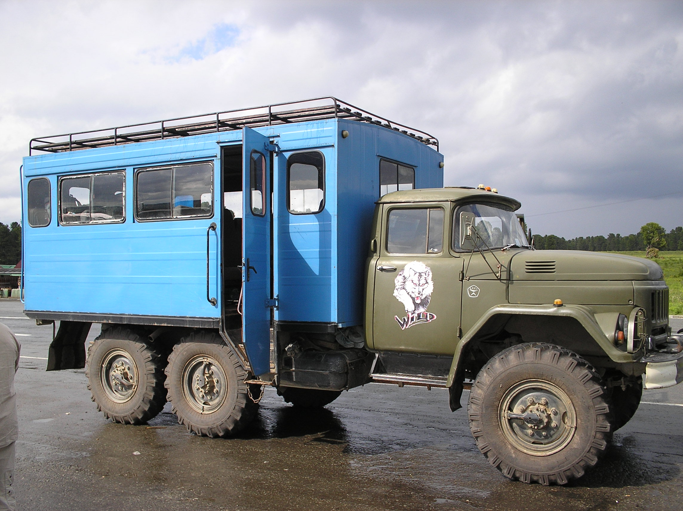 ZiL-131 based Off-road bus. Camera: Olympus C170,D425 License on Flickr (2010-12-29): CC-BY-2.0 Flickr tags: Altai Republic, Ongudaysky District, path:Берель:Кочевник, car, Olympus C-170, ru